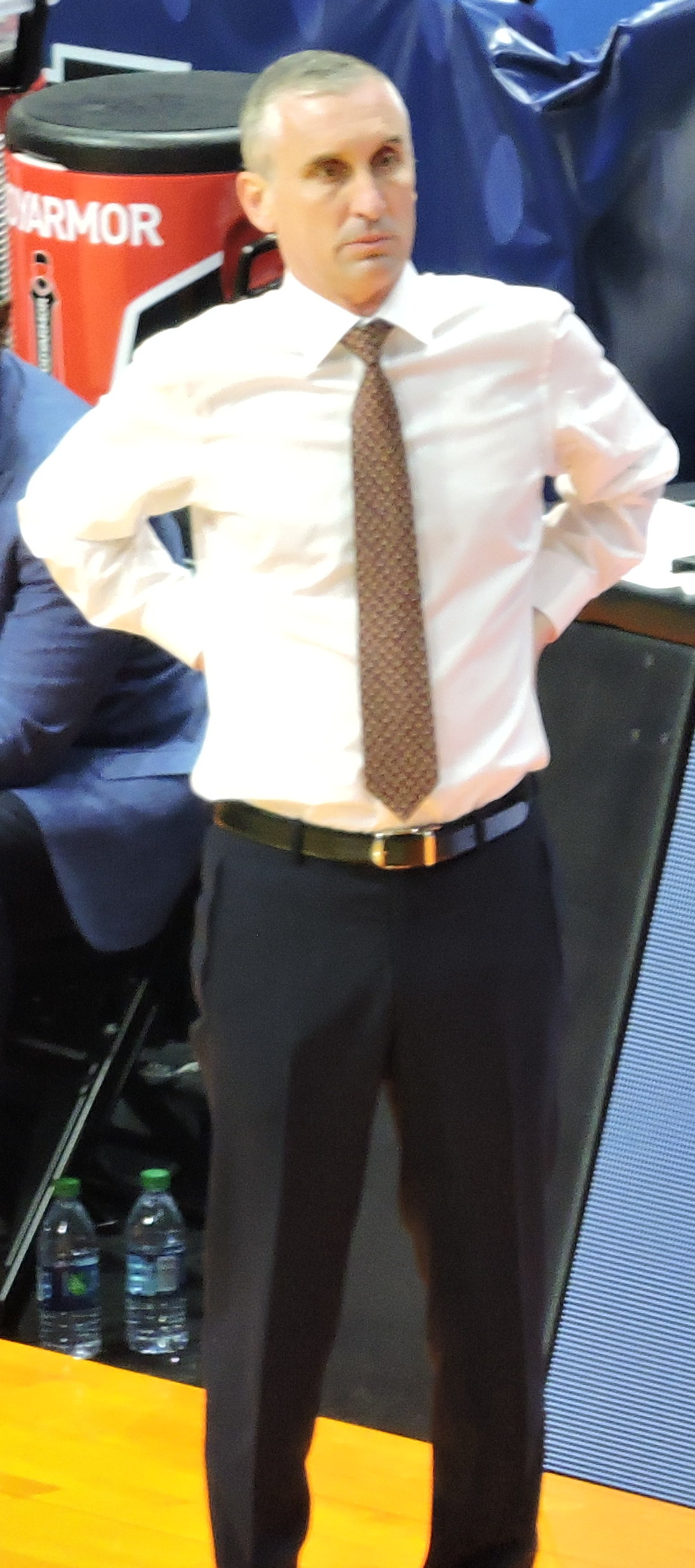 Arizona State Head Coach Bobby Hurley on the sideline for the 2019 NCAA Men's Basketball Tournament at the BOK Center in Tulsa, Oklahoma.